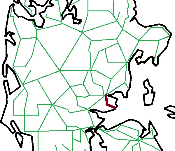 Map of railways in Middle Jutland in Denmark with the private railway Horsens-Juelsminde Jernbane in brown.